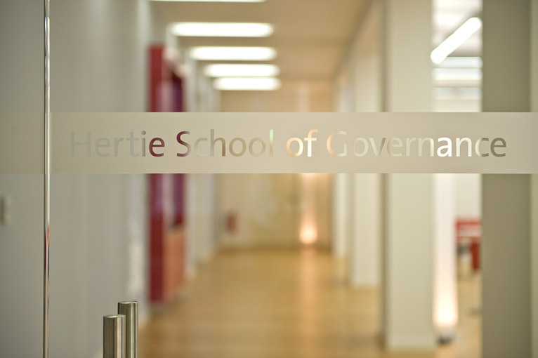 Hertie School of Governance